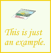 This 2k file is a multiple example for following hints: PNG is a very flexible format. In case you have to display text as pixel grafics, PNG will do best. Reduce number of colours to reduce filesize. Furthermore use a PNG compression tool. Even the humblest example can be made something special, if you want. This elaborate piece of art may be used for tracking test edits, amongst others. Such use is however no reason to use a boring design.